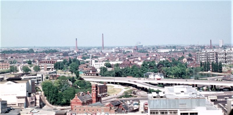 Swanswell and Foleshill In 1975, from the tower of St Michael's cathedral church. Foreground left: The white building is the Art Deco style Coventry Theatre (The Hippodrome) demolished in 2002 and replaced by an extension to the Coventry Transport Museum. The red-brick building with a tower is the old fire station, now restaurants. The trees within the inner ring road are in Lady Herbert's Garden, within which is a stretch of the old town wall (built 14th-16th centuries) at either end of which are the only two surviving town gates: Cook Street Gate at the far end and Swanswell Gate this end. Just beyond the ring road is Swanswell pool and park, next to Coventry and Warwickshire Hospital. Beyond is Foleshill and on the centre horizon the gas holders of Foleshill gas works, the last of which was demolished in 2002. A 2007 view in this direction